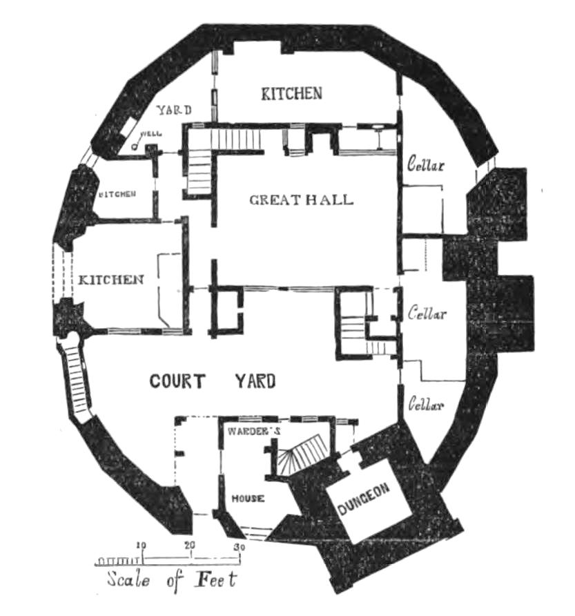 The ground plan of Tamworth Castle, extracted from The History of the Town and Castle of Tamworth, p.404